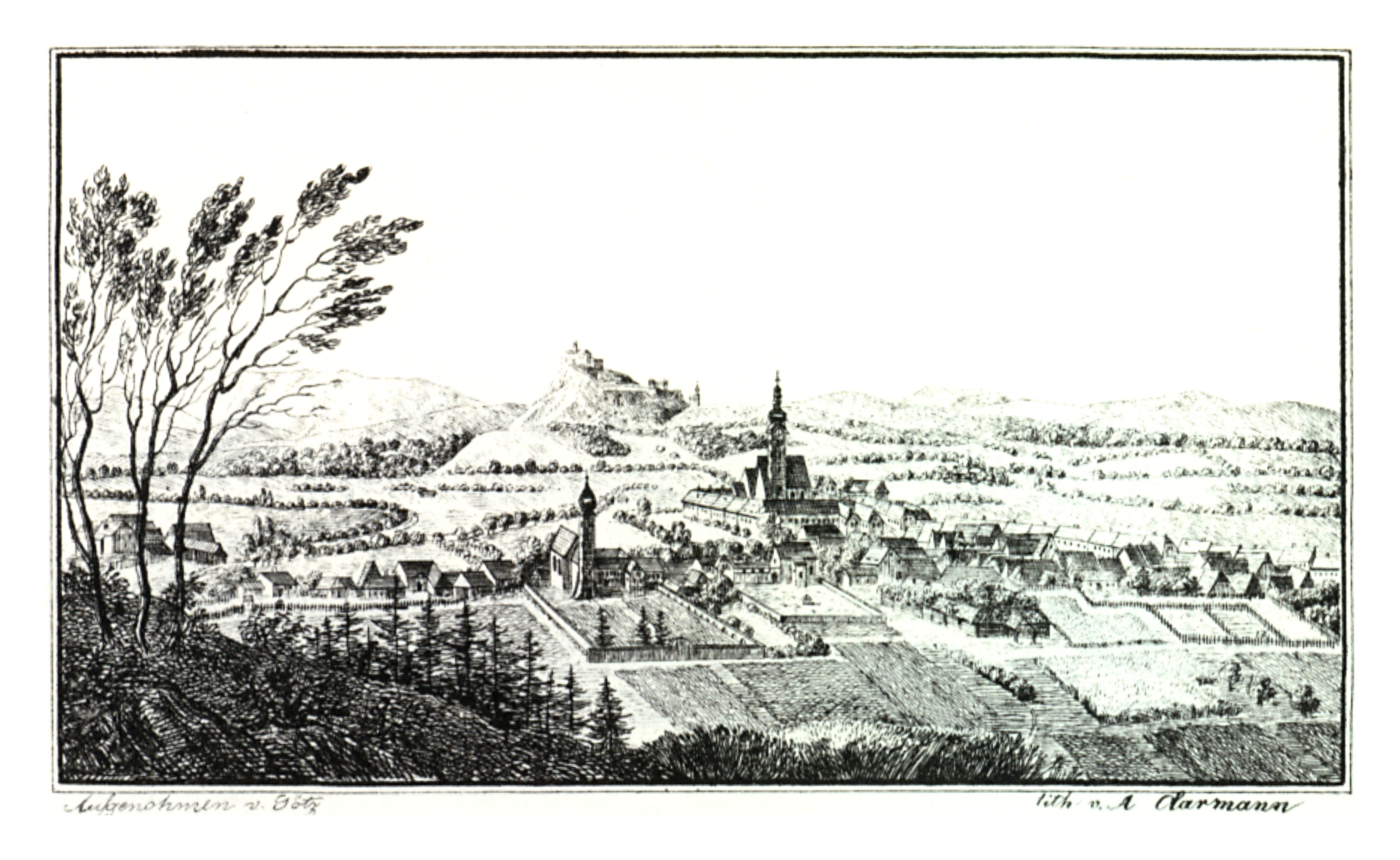 J. F. Kaiser - lithographirte Ansichten der Steyermärkischen Städte, Märkte und Schlösser Graz, 1825 Scanprojekt Community Projektbudget 2012 This scan or this PDF-file was created within the GLAM-project Bookscanning, supported by Wikimedia Germany and Wikimedia Austria as a part of the community-project to capture books, documents and pictures which are not eligible to copyright or for which the copyright has expired. This document describes or depicts an object which is located in Austria today. Send requests for uncompressed scans to Hubertl. This work is in the public domain in its country of origin and other countries and areas where the copyright term is the author's life plus 100 years or less. You must also include a United States public domain tag to indicate why this work is in the public domain in the United States. This file has been identified as being free of known restrictions under copyright law, including all related and neighboring rights.